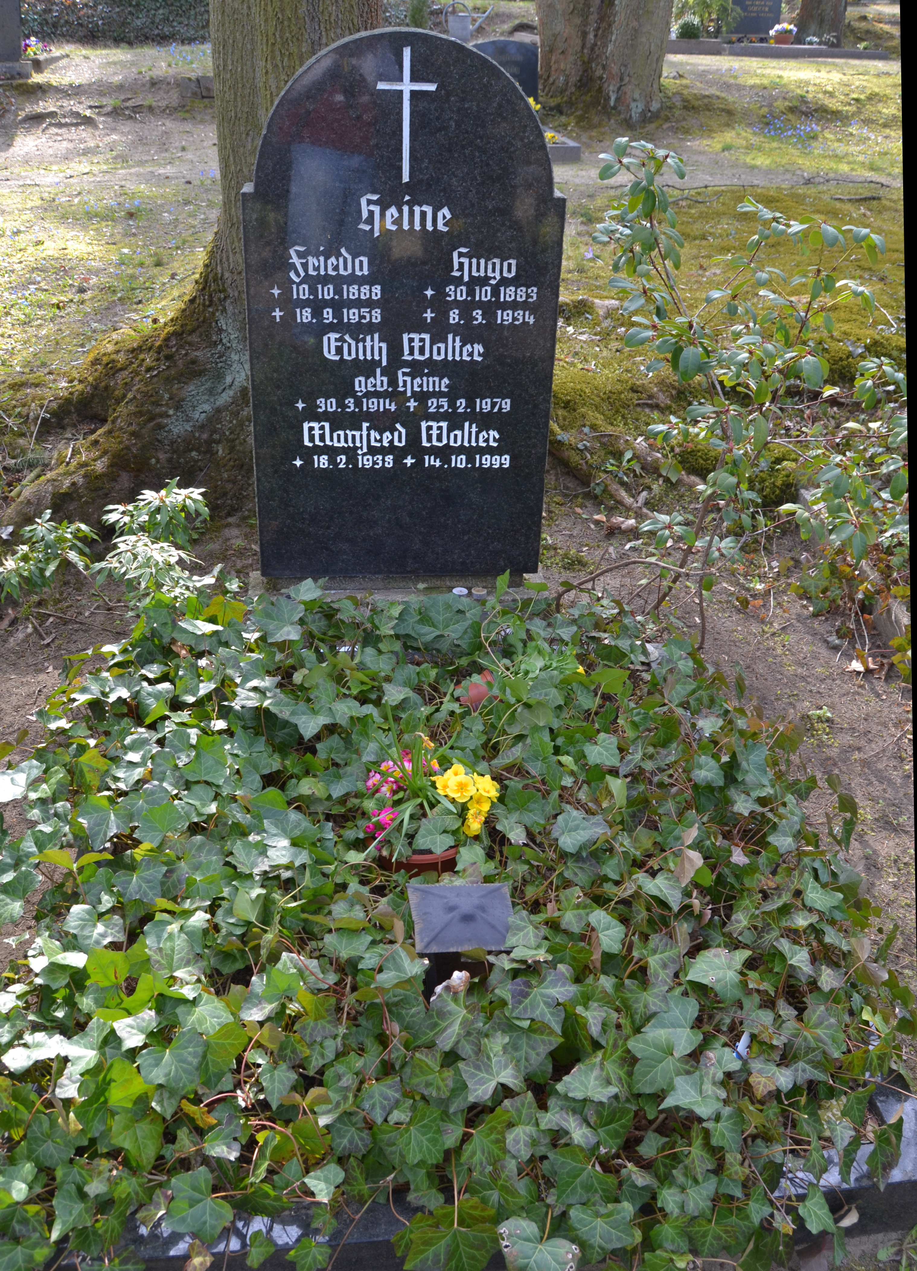 Cemetery of Woltersdorf near Berlin in April 2015.